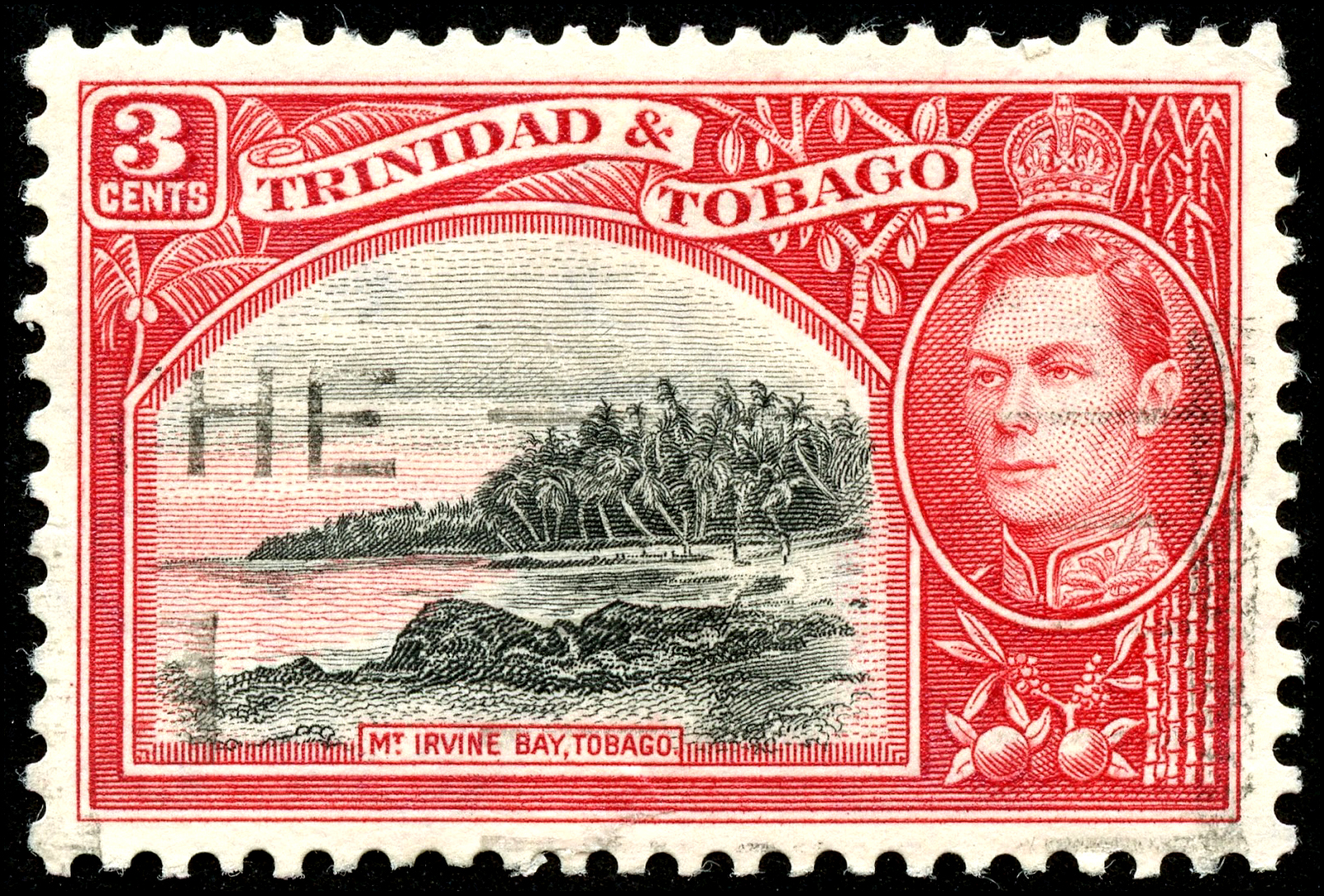 Stamp of Trinidad and Tobago, mt. Irvine Bay on Tobago, 3c, 1938.